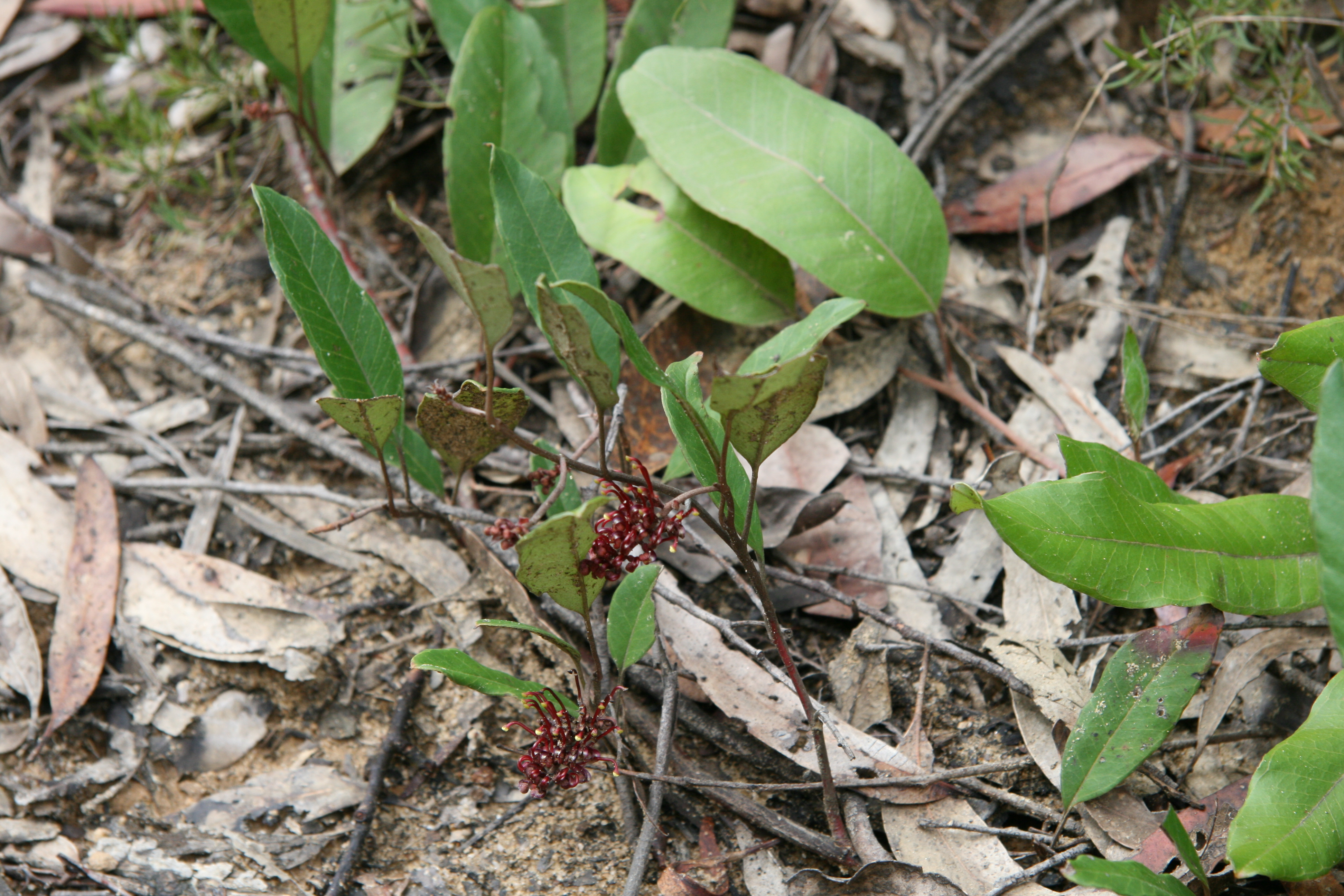 Grevillea laurifolia, walking track for Edith Falls (Woodford)